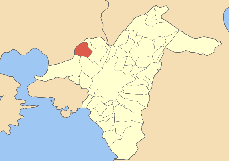 Locator map of Petroupoli municipality (Δήμος Πετρούπολης) in Athina Nomarchia (Νομαρχία Αθηνών) in Greece.